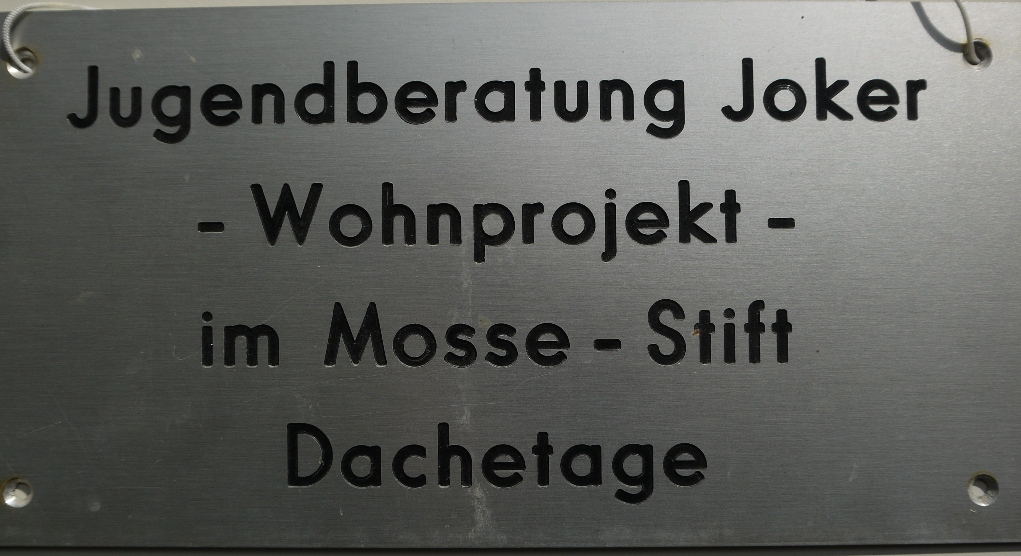 domestic sign